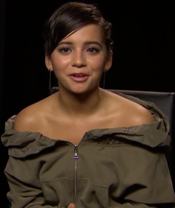 Isabela Moner at a Tranformers: The Last Knight Shot Out